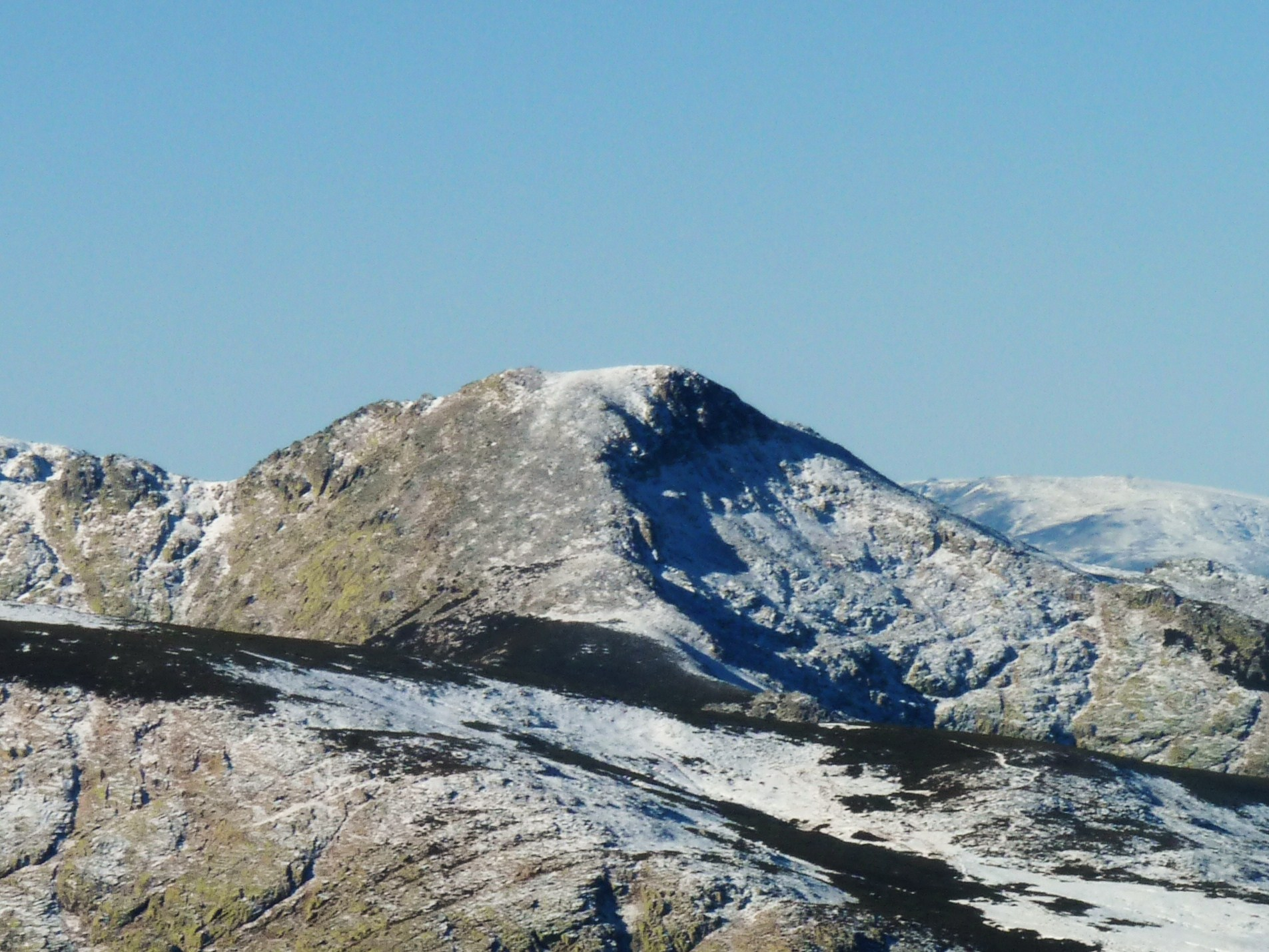 Cabeza Nevada peak in the Sierra de Gredos mountain range (Castile and León, Spain).